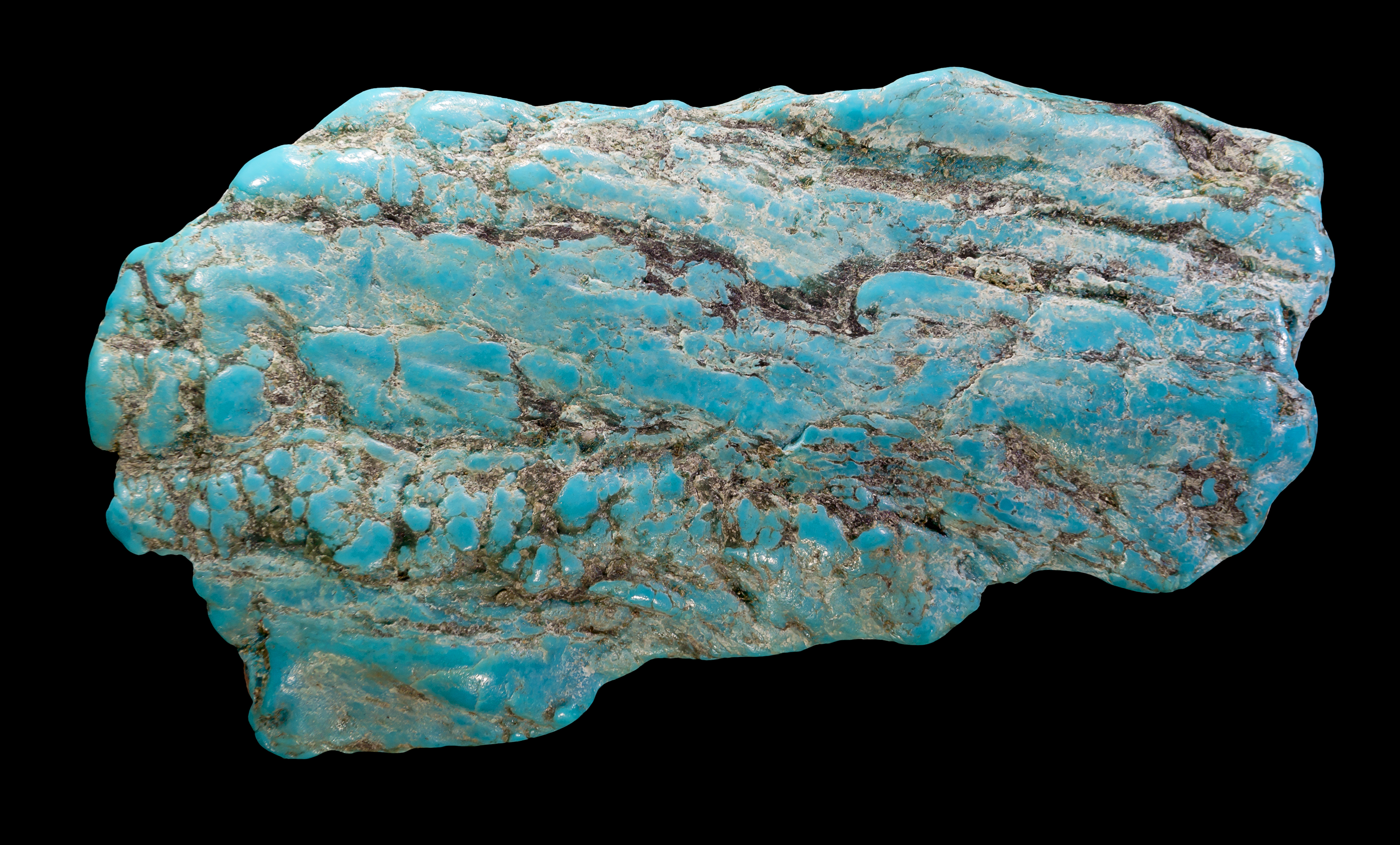 Howlite artificially colored in blue, and sold under the name turquenite. Locality: Tick Canyon, Lang, Los Angeles Co., California, USA. Size : 7.27 x 3.9 x 1.0 cm